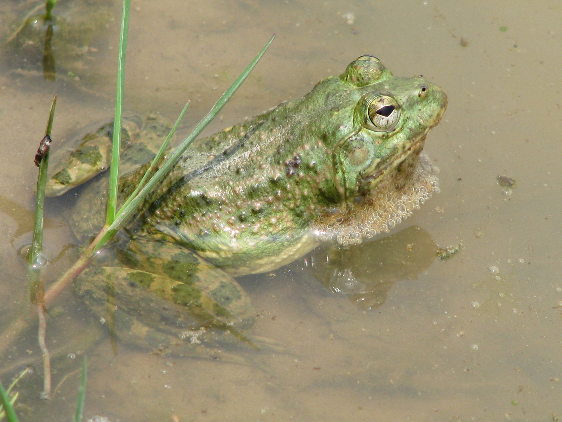 Skipper Frog/Indian Skipper Frog, Euphlyctis cyanophlyctis [Rana cyanophlyctis]